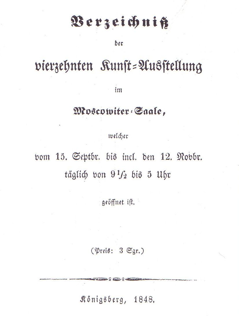 Invitation to the 14th art exhibition in the Moskowitersaal in Königsberg